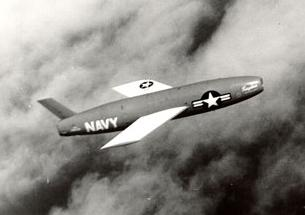 A Vought KDU-1, the target drone version of the SSM-N-8 Regulus surface-to-surface missile, in flight.